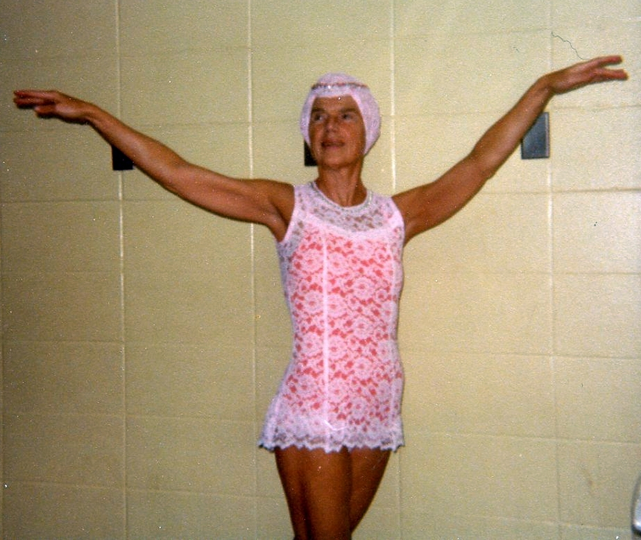 The American synchronized swimmer Beulah Gundling in her routine Concerto to music by Rchmaninoff (IAAA Mini Festival in April 1977 at Proviso West High School - Illinois).